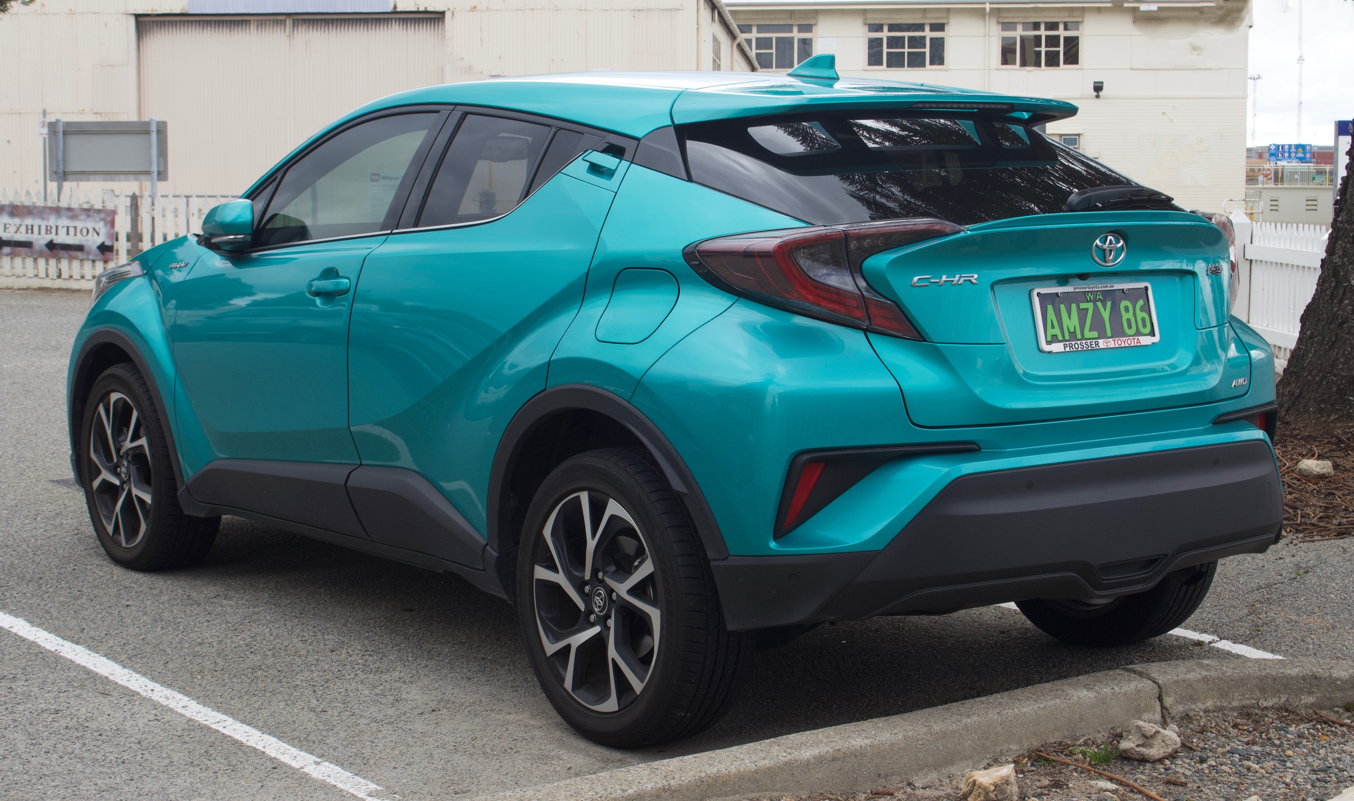 2018 Toyota C-HR (NGX50R) Koba AWD hatchback. Photographed in Fremantle, Western Australia, Australia.